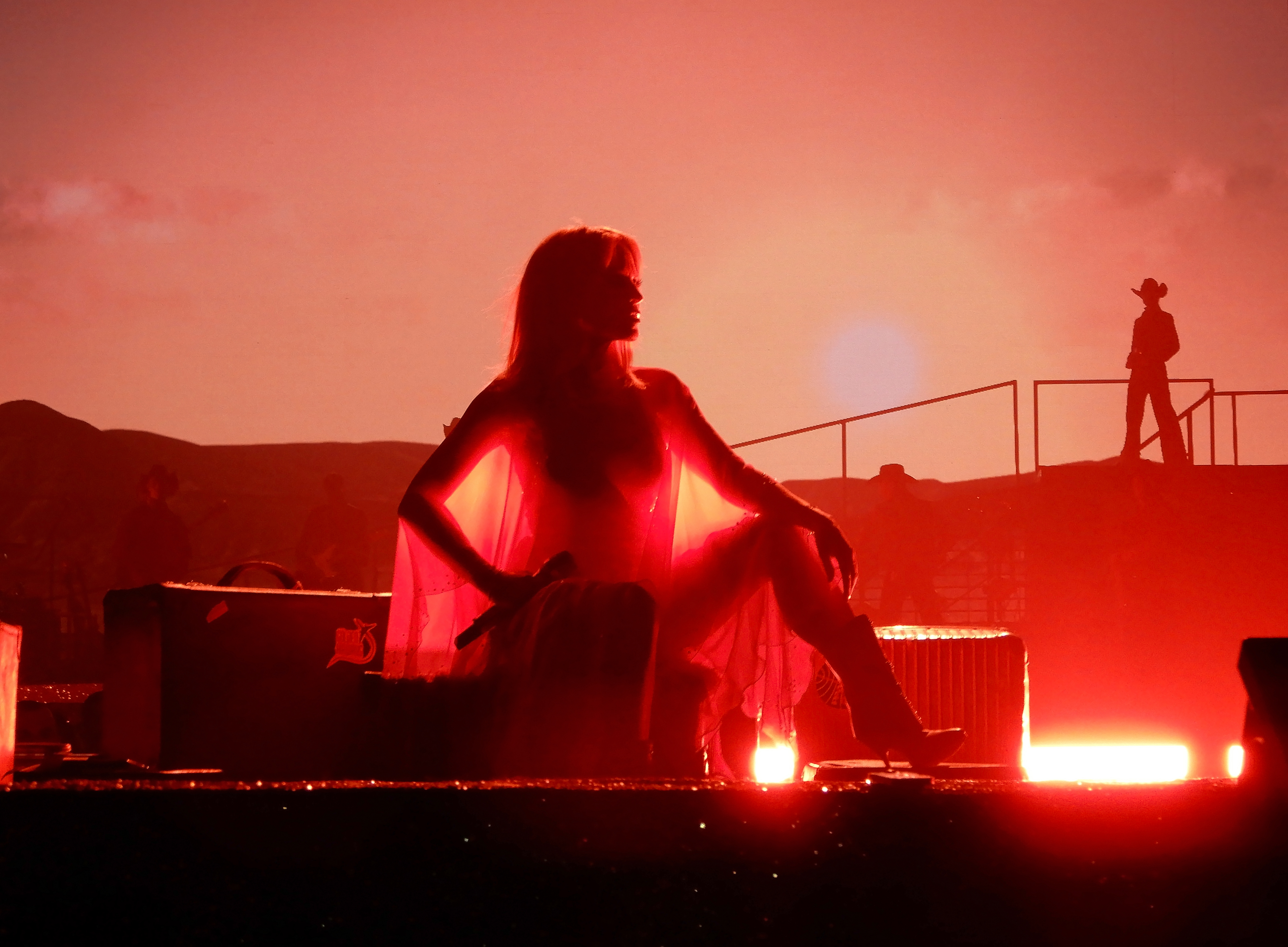 Kylie Minogue - Golden Tour - Motorpoint Arena - Nottingham - 20.09.18. - ( 01 )